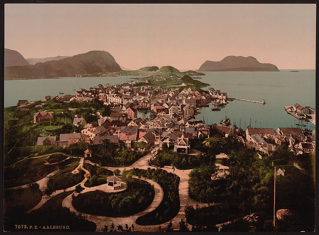 General view of Ålesund in Norway